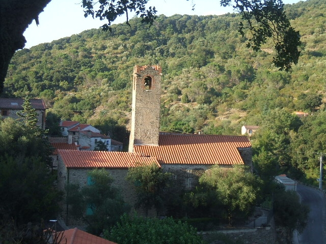 Saint-Michel-de-Llotes (département of Pyrénées-Orientales, Languedoc-Roussillon région, France)